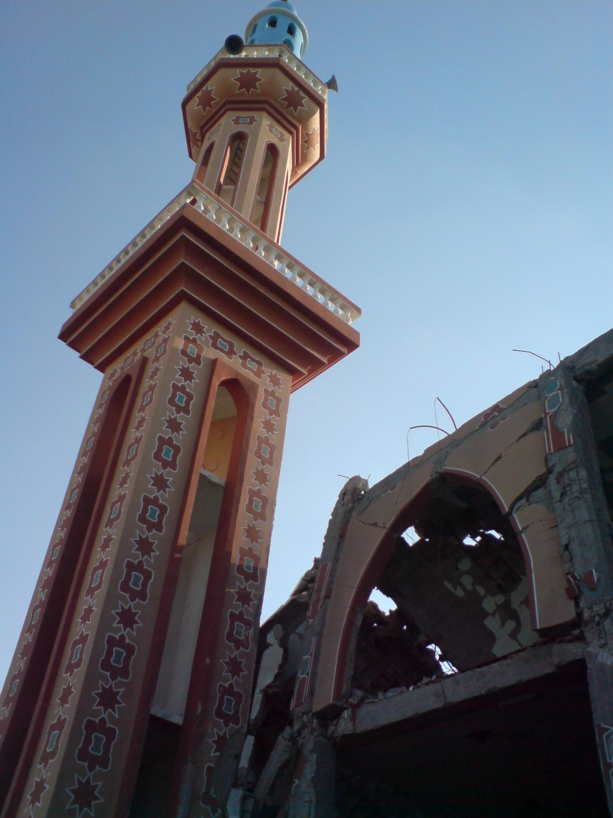 Photos taken from UNRWA refugee shelters, school and mosque in Rafah, Gaza 12th January 2009 - Photos taken from UNRWA refugee shelters, school and mosque in Rafah, Gaza - Photos taken by ISM Gaza Strip 12th January 2009 - Photos taken by the International 12th January 2009 - Photos from Rafah UNRWA refugee shelters, school and mosque. Photos taken by the International Solidarity Movement